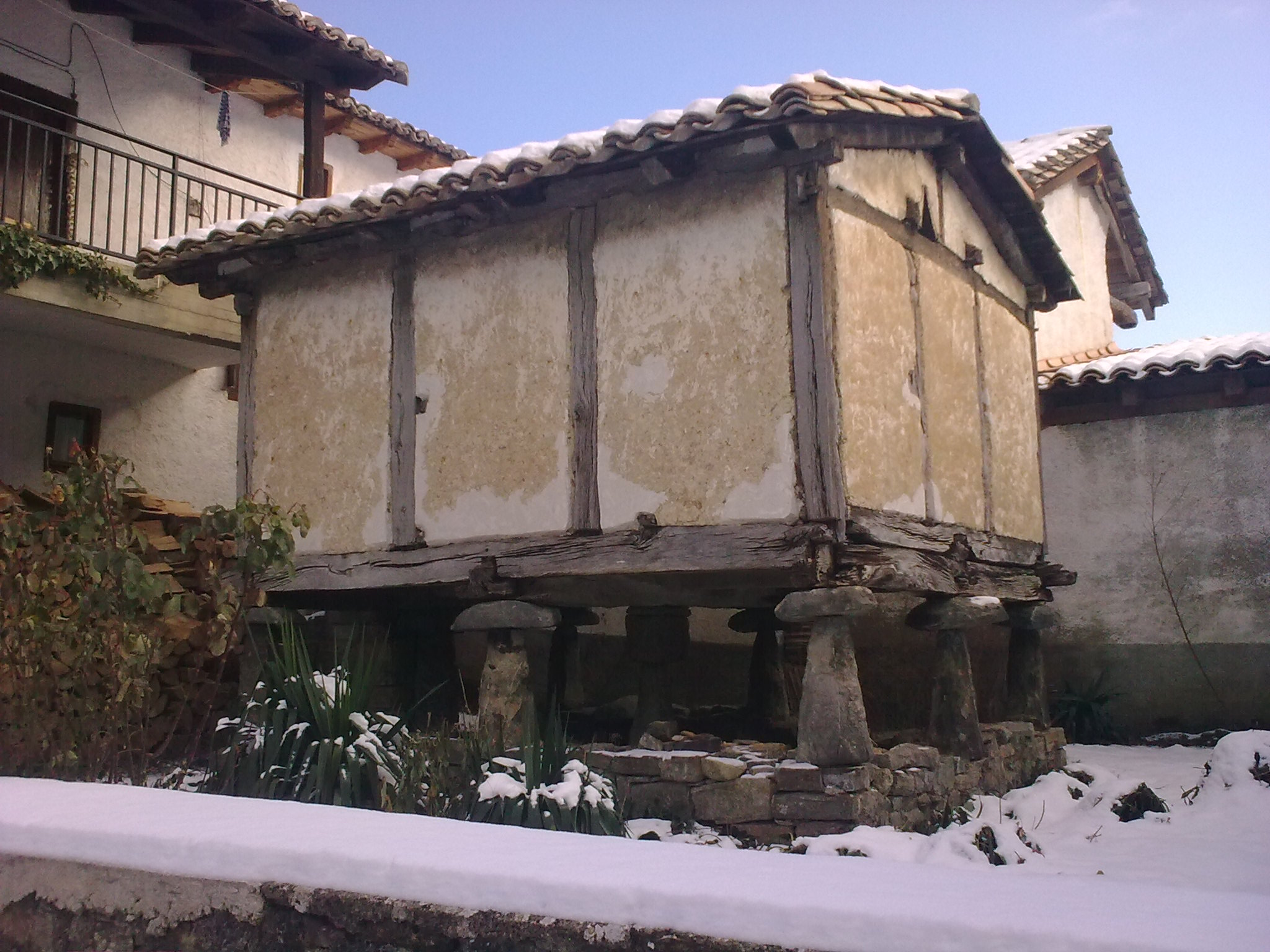 Hórreo de Izal